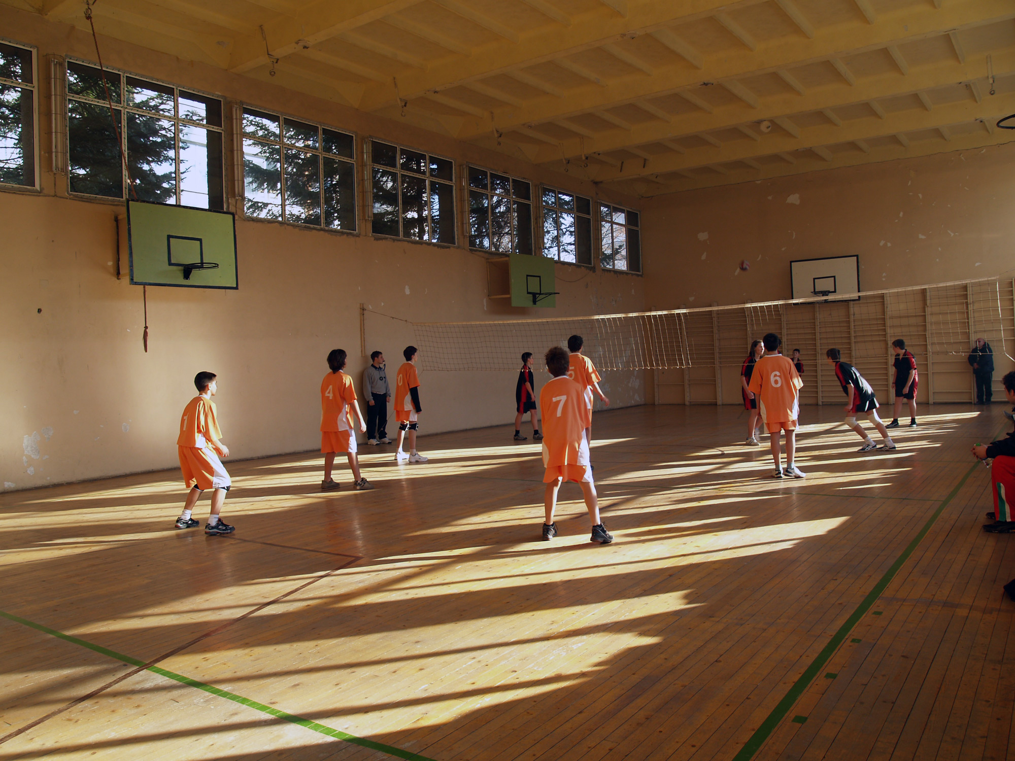 School Volleyball Match in Sofia, Bulgaria